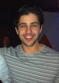 Actor Josh Peck at an Exclusive Party in 2010.